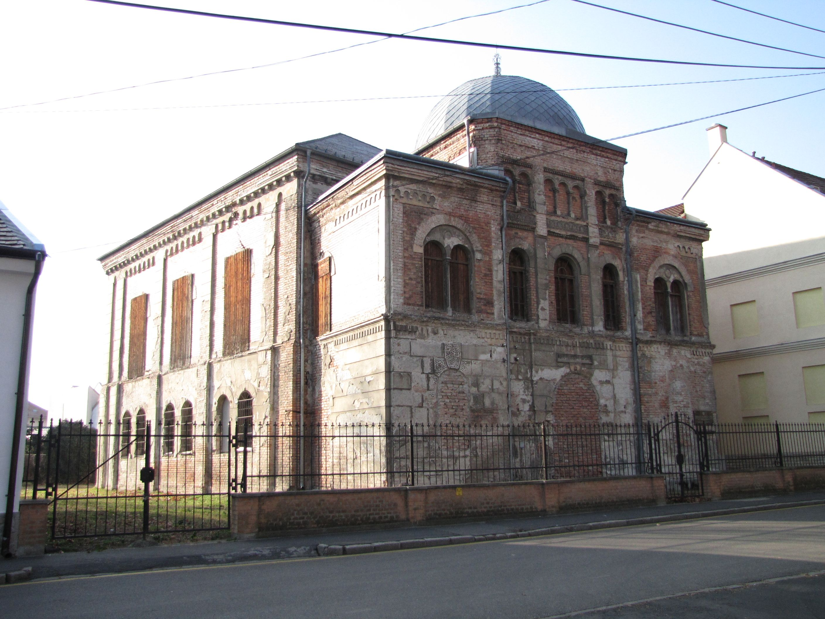 Sopron, new synagogue.